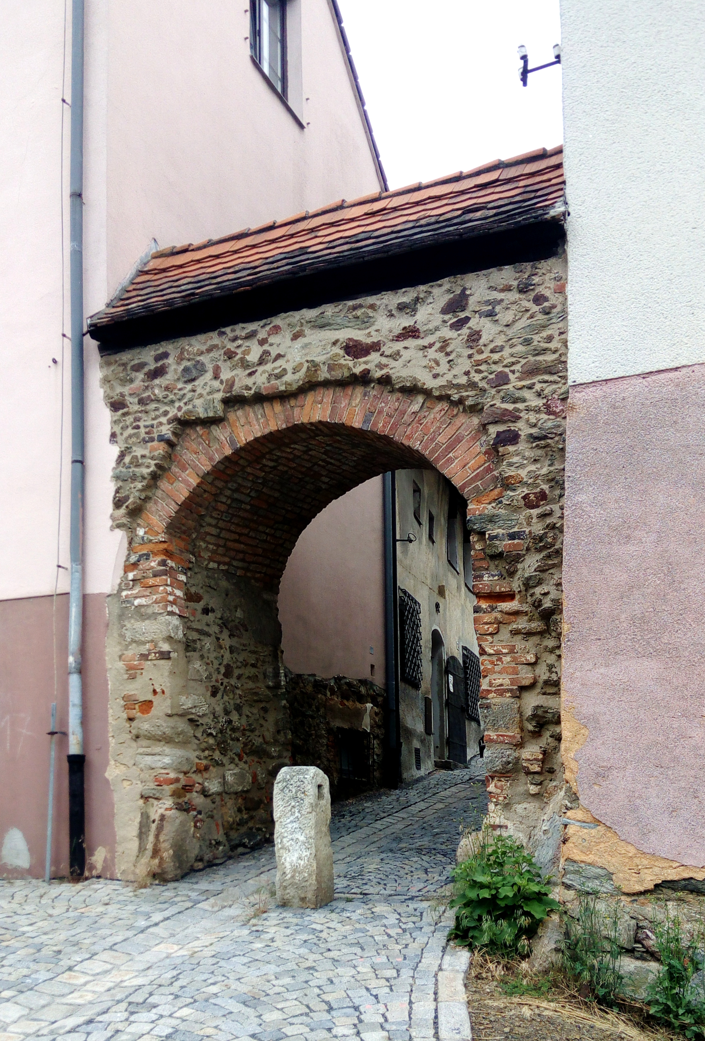 Jewish Gate, Stříbro, Tachov District, west Bohemia, Czechia